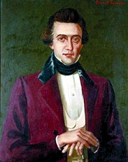 George W. Towns, Congressman from Georgia and Governor of that state